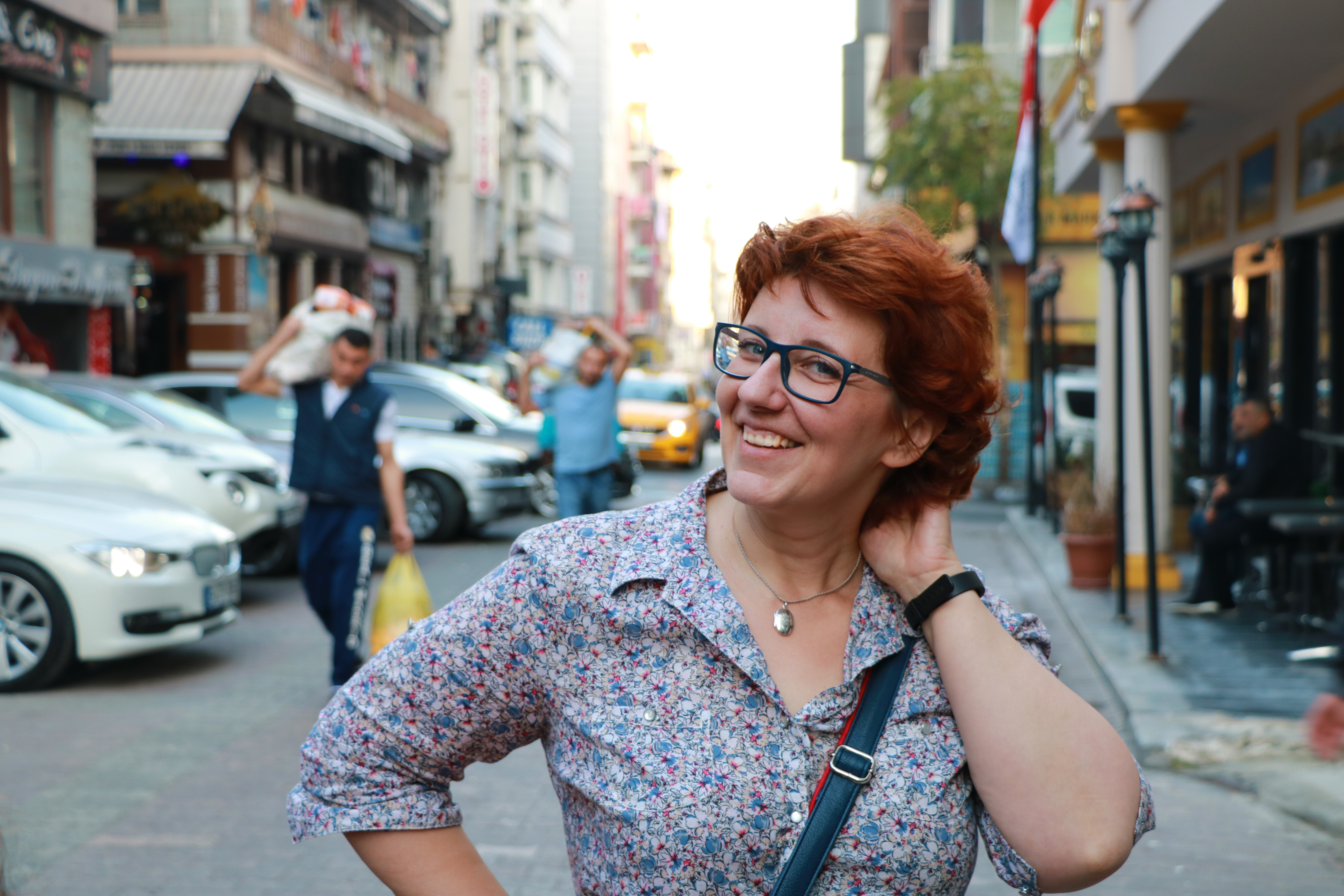 Portrait of Serbian artist Ivana Stankovic, in Istanbul, Turkey, november 2019.